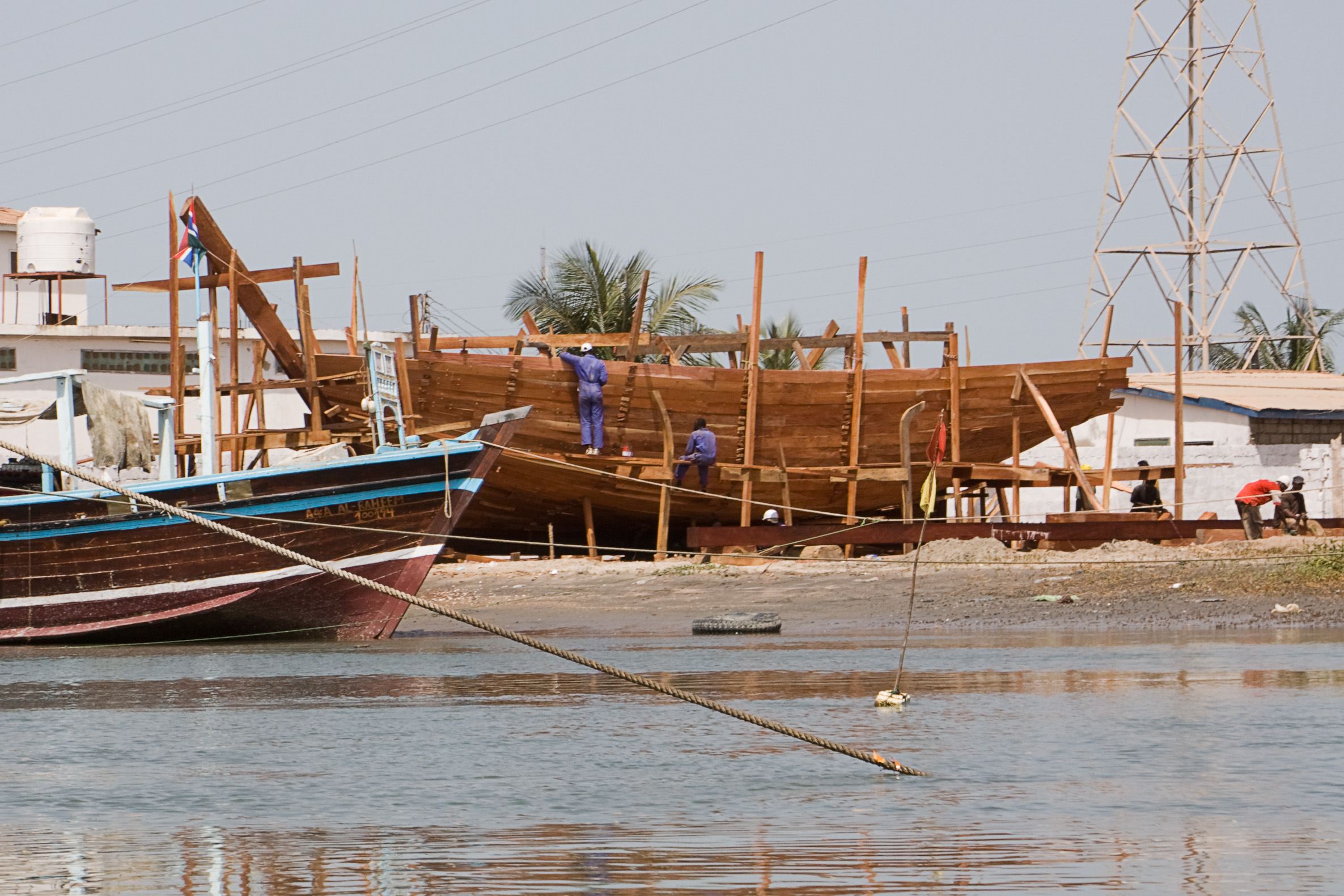 Building a ship in The Gambia